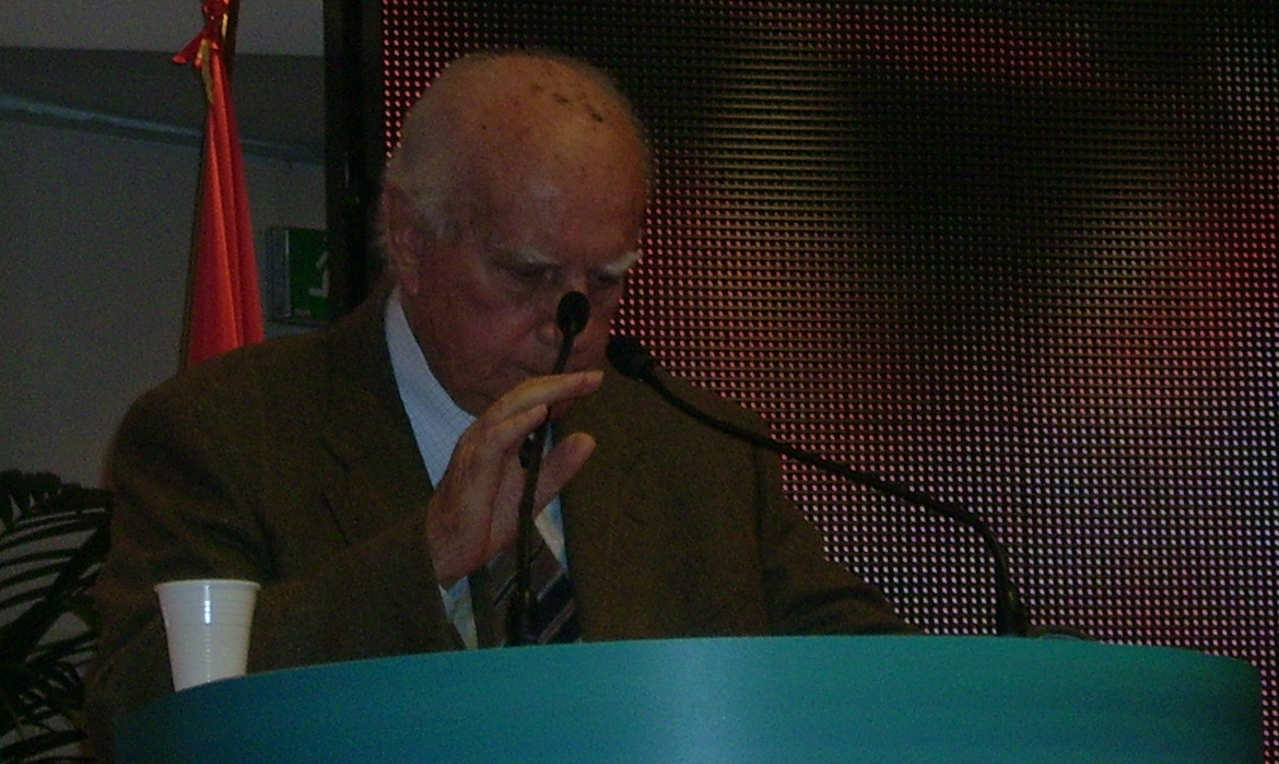 Alfredo Reichlin, National Congress of the Left Youth, 2007